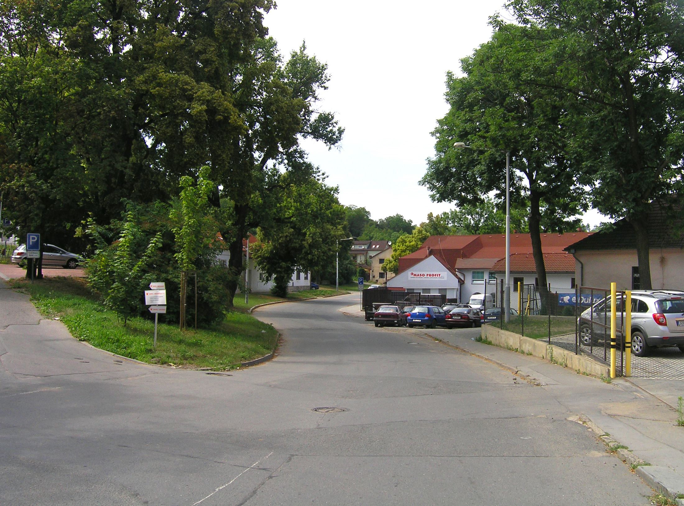 Hrdlořezská street at Hrdlořezy, Prague